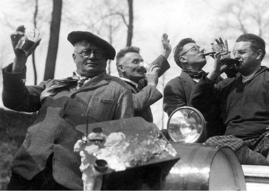 Jozef De Coene on his boat "'t Haantje" with Stijn Streuvels, Albert Saverys and Arthur Deleu (Belgium, ca. 1923)